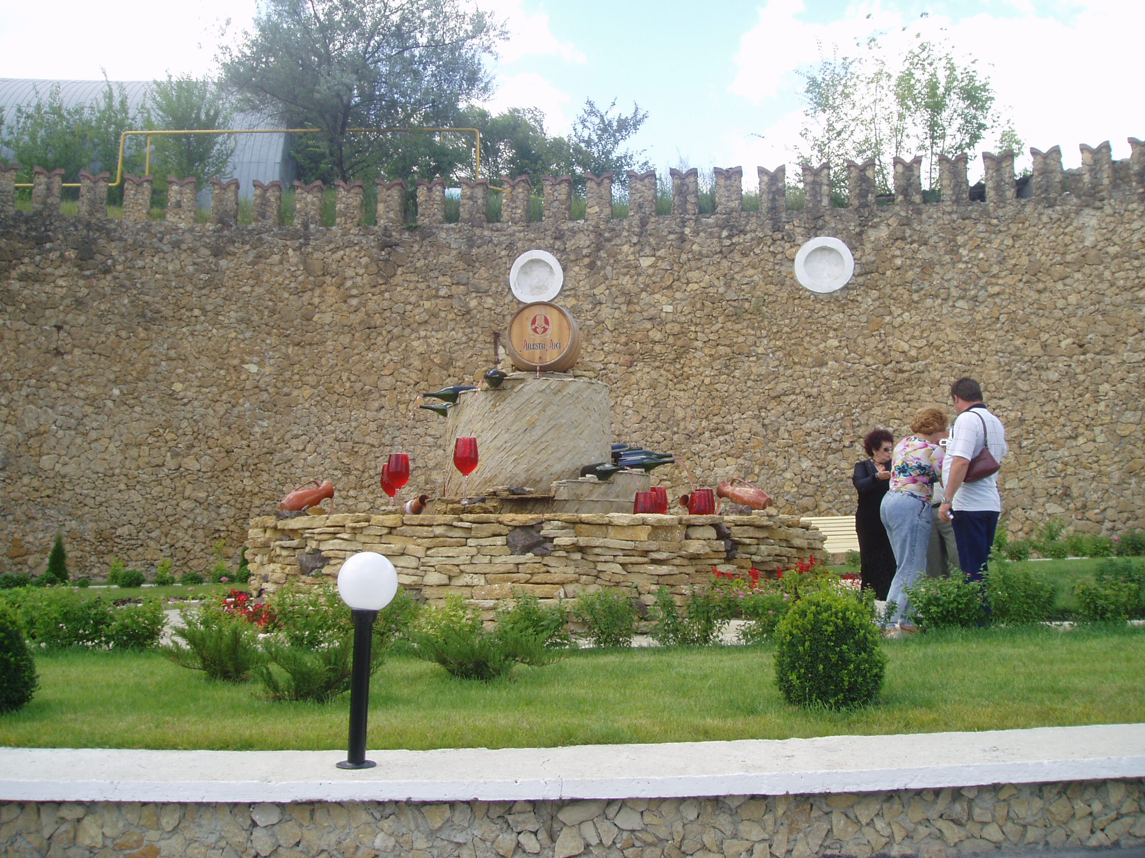 At the premises of the winery of Milestii Mici they have these really kitschy fountains supposed to resemble wine. One for red wine, and one for white/sparkling wine. Outside Chisinau, Moldova.